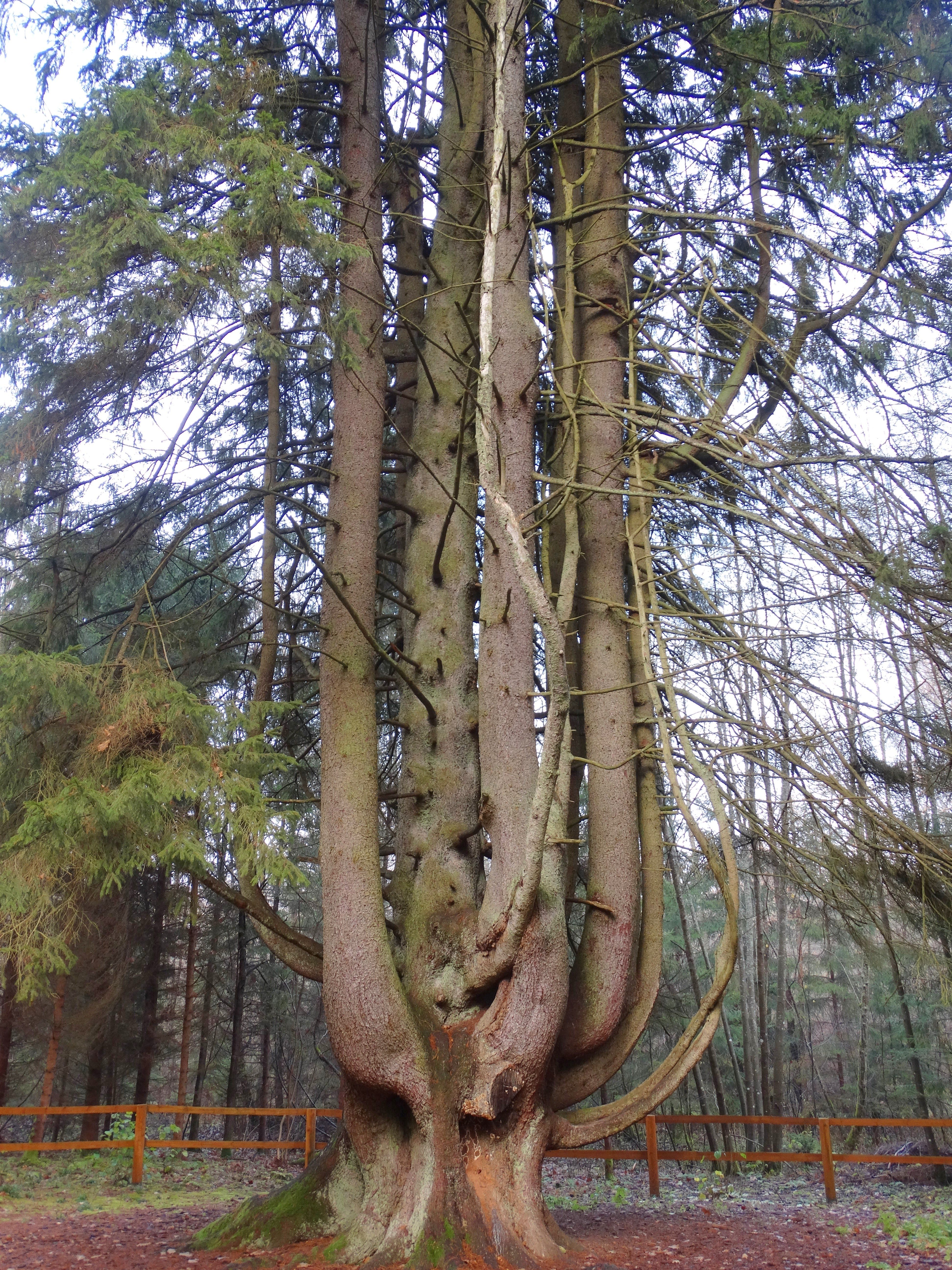 Witches Spruce, Pagėgiai Municipality, Lithuania